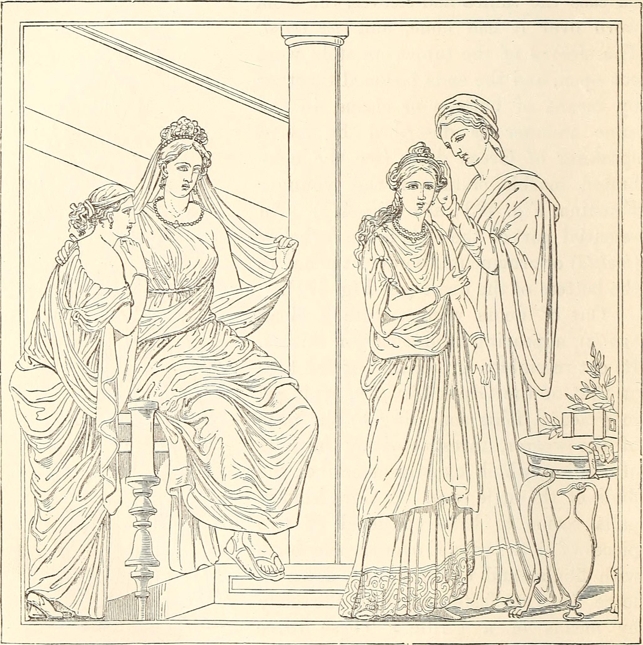 Title: The life of the Greeks and Romans Year: 1875 (1870s) Authors: Guhl, E. (Ernst), 1819-1862 Koner, W. (Wilhelm), 1817-1887, joint author Hueffer, Francis, 1843-1889, tr Subjects: Publisher: London, Chapman and Hall Text Appearing Before Image: 484 THE TOILETTE OF THE BRIDE: in the museum of Florence. Before the introduction of the pallaBoman ladies used to wear a shorter and tighter square cloak,called ricinhim, which afterwards seems to have been worn onlyat certain religious ceremonies. Similar articles of dress werethe rica and suffibulum, the former worn by the Flaminica, the latterby the Yestals in the manner of a veil. Fig. 471 reproduces a Text Appearing After Image: Fig. 471. graceful picture found in a room at Herculaneum (1761), withseveral others, leaning against the wall. It is generallydesignated as the Toilette of the Bride/ On a throne isseated the still youthful mother of the bride, dressed in the stola,tied round the body with the strophium. The lower part of thebody is covered by the folds of the palla ; down her back floats a MATERIALS AND COLOURS OF DRESSES. 485 long veil fastened to the back of her head. Her right arm tenderlyembraces the neck of her daughter; both are gazing at the bridestanding in the middle of the room. The stola of this, hersecond, daughter shows the broad instita already mentioned ; itsopen sleeves, or those of the tunica underneath, are fastened tothe upper arm by means of buttons. She wears a palla of thetoga kind over her other garments. A maid-servant, standingbehind her, is clad in a stola (with sleeves reaching down to thewrists) and a palla. Up to the end of the Republic the only materials used forthese d